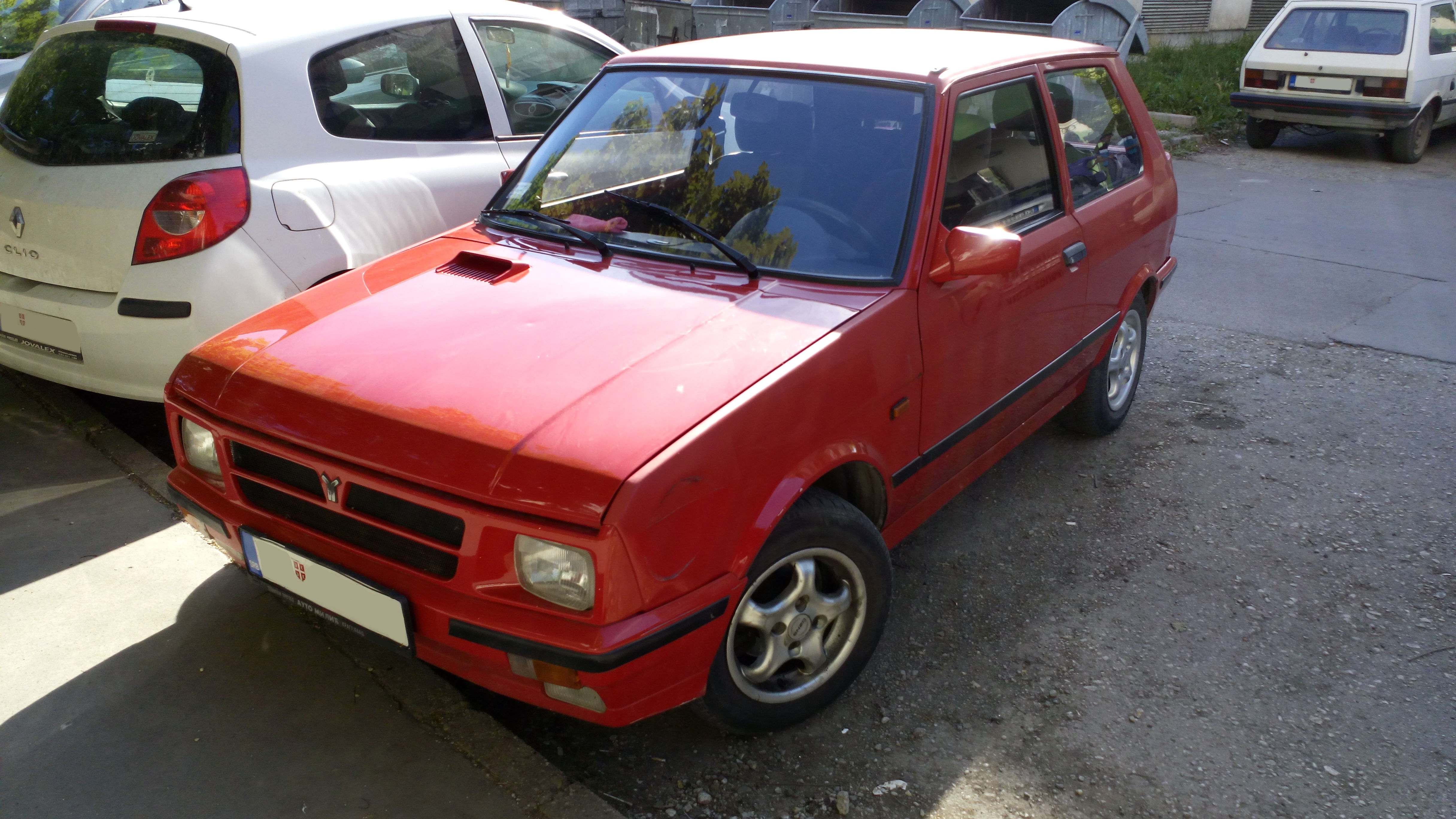 Yugo Ciao in Kragujevac